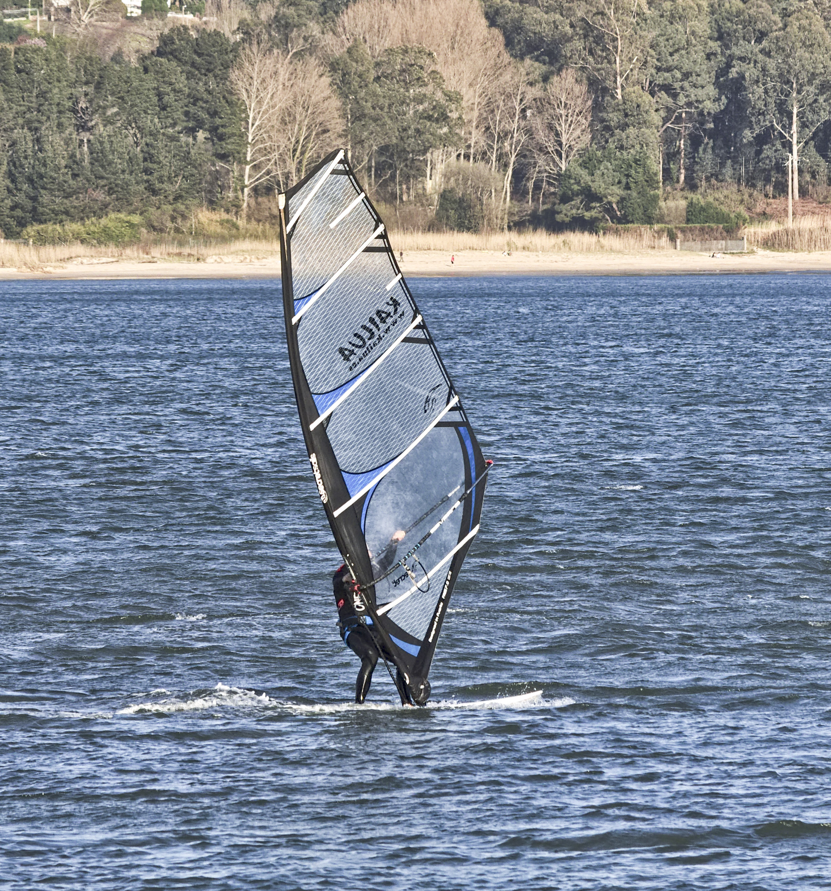 Jibe in windsurf.